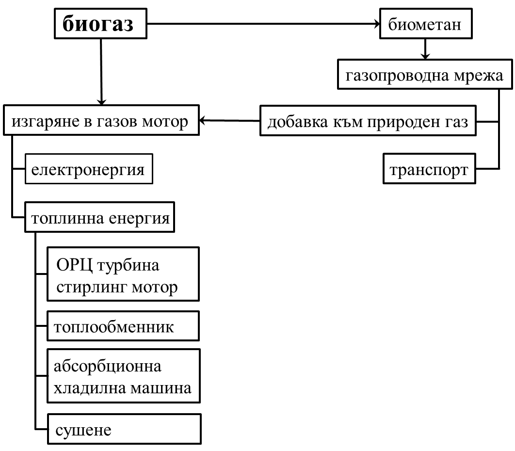 biogas_use_Fuchs_and_Drosg_2010